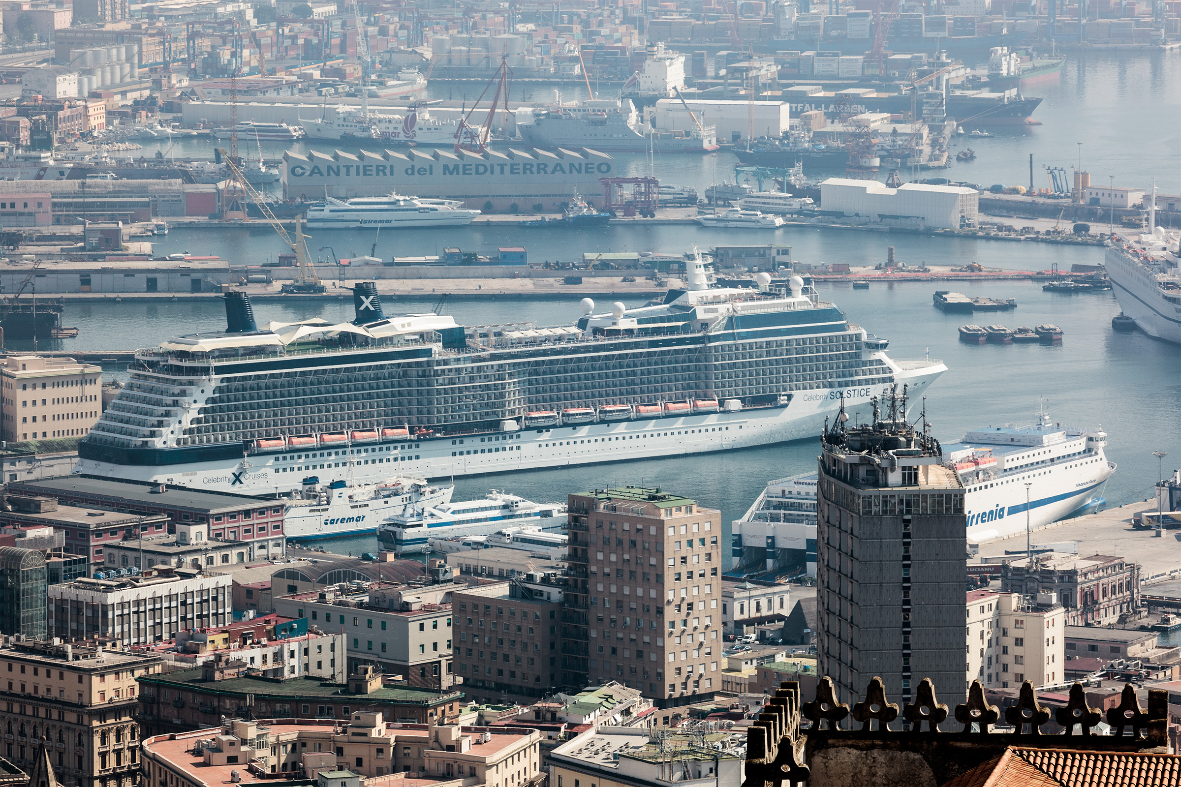 cruise ship in Naples